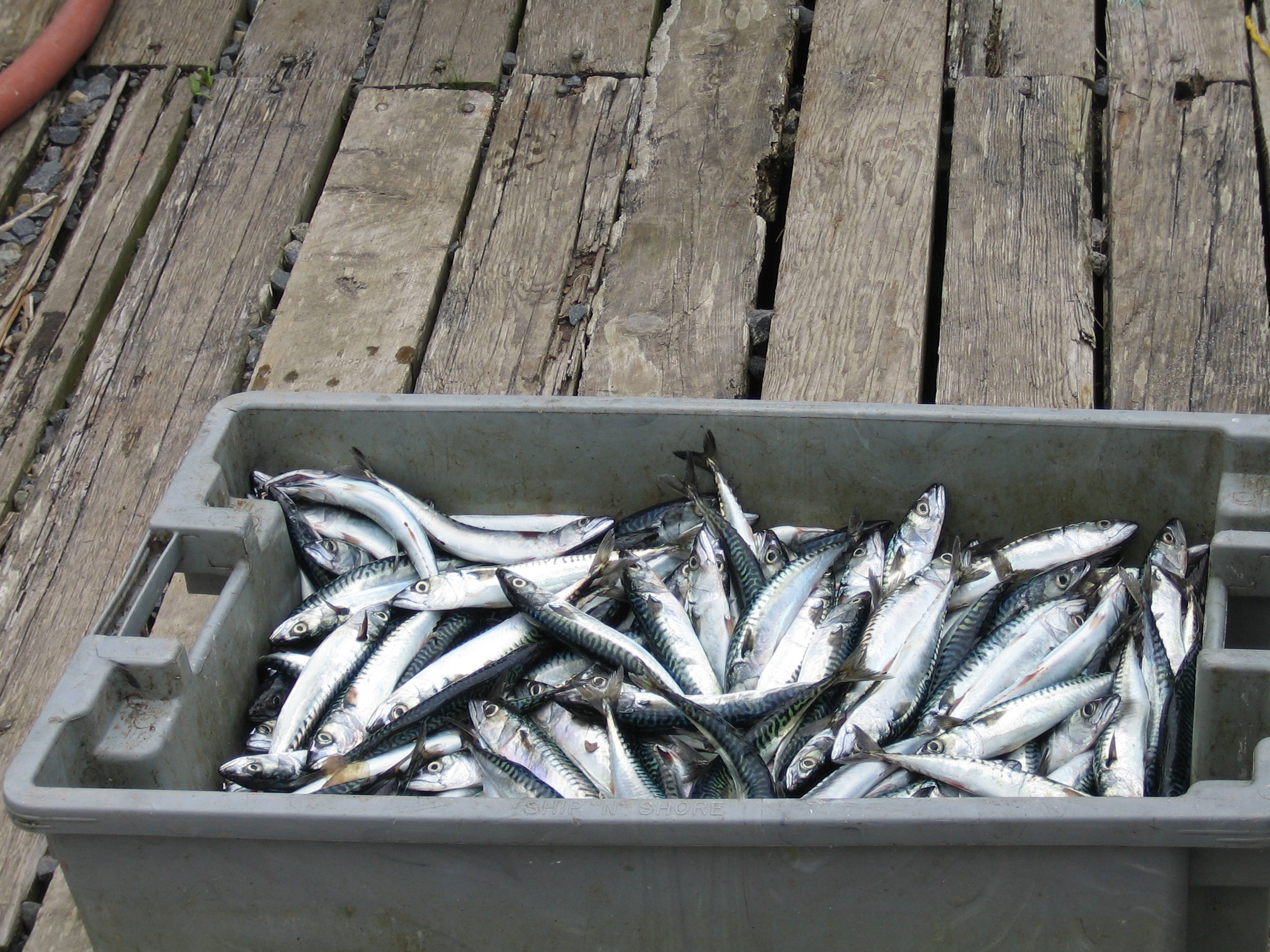 Peggy's Cove, Nova Scotia, Canada